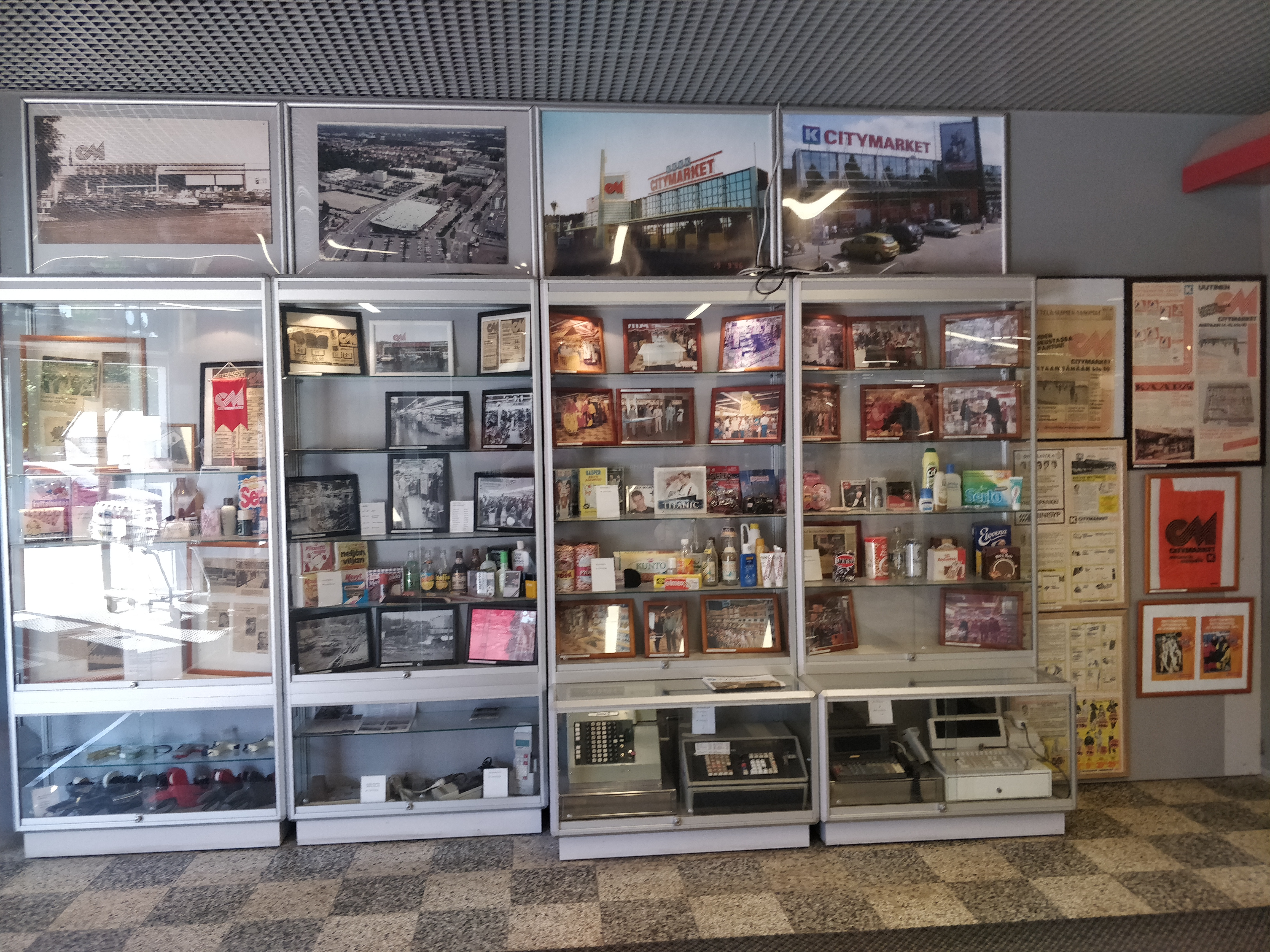 A hallway of a hypermarket (Paavolan K-Citymarket) located in Paavola (district area of city of Lahti, Finland). Photograph was taken at 16:21 local time. Hall has shelfs that contain objects and photographs that tell about history of the hypermarket.